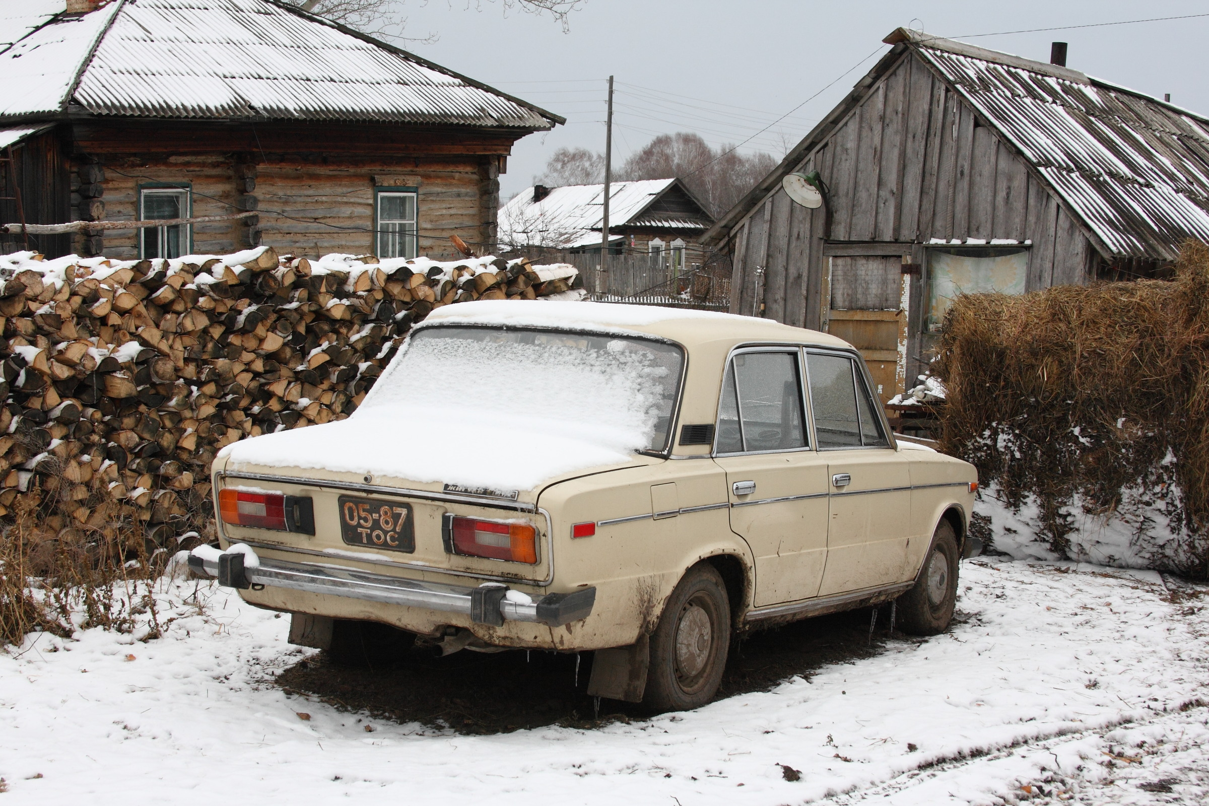 VAZ-2106 with Soviet license plate in Kozhevnikovsky District, Tomsk Oblast, Russia